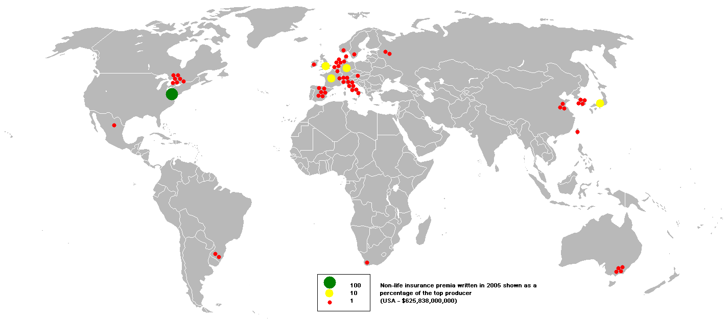 This bubble map shows the global distribution of non-life insurance premia written in 2005 as a percentage of the top producer (USA - $625,838,000,000). This map is consistent with incomplete set of data too as long as the top producer is known. It resolves the accessibility issues faced by colour-coded maps that may not be properly rendered in old computer screens. Data was extracted on 3rd June 2007. Based on Image:BlankMap-World.png Data source